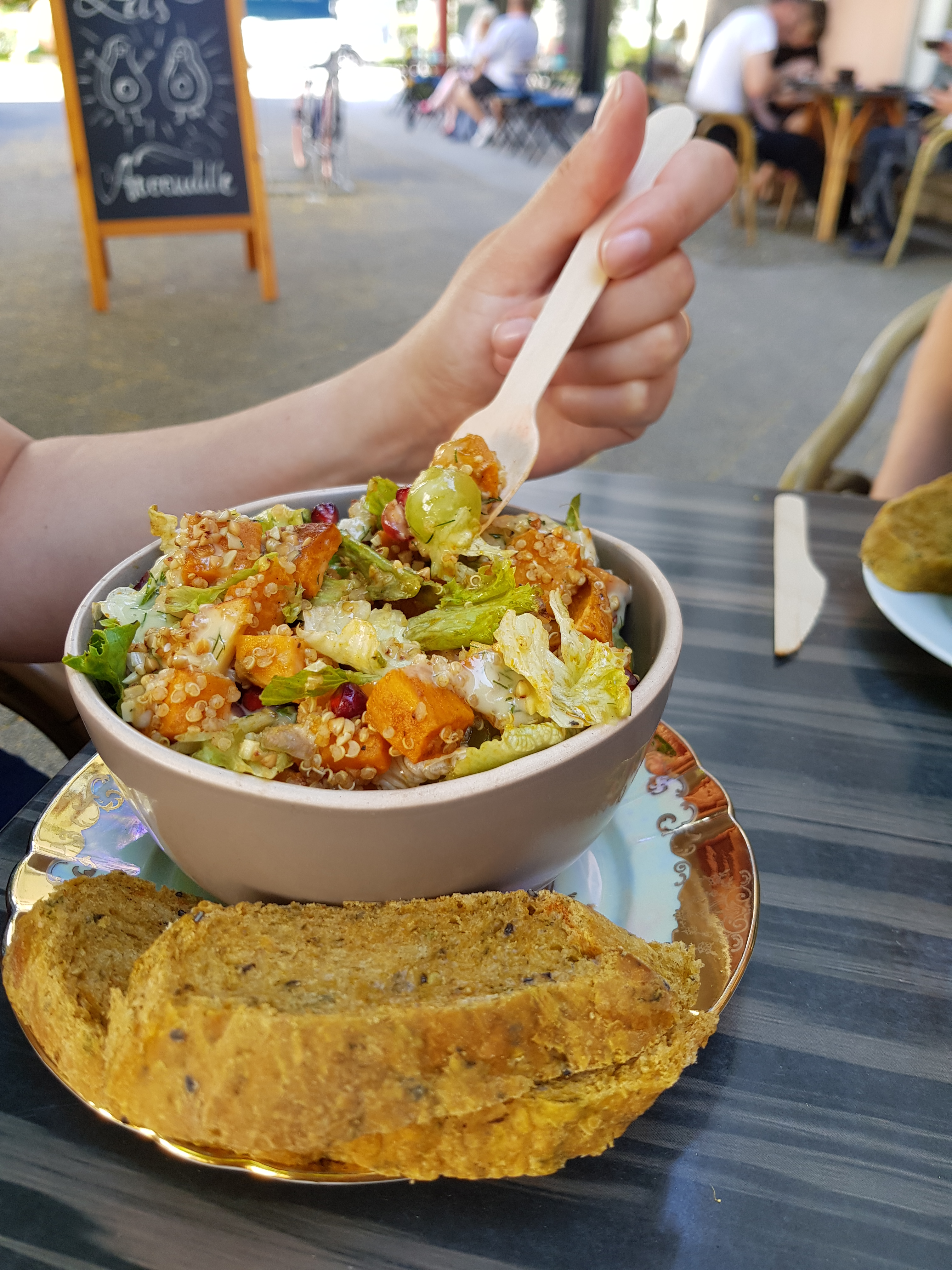 Customer eating salad with a wood fork in a restaurant